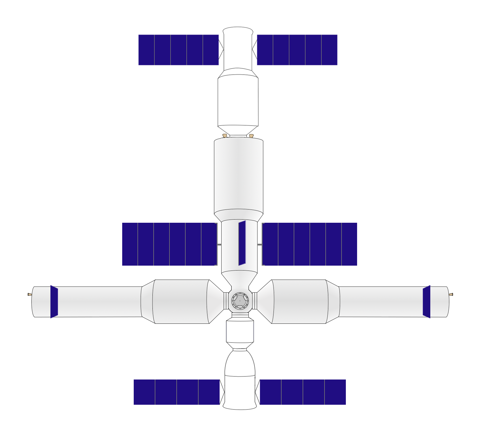 Drawing of China's large orbital station, based off of this image ( May not be to scale.